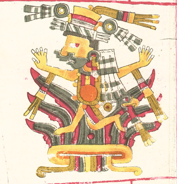 A drawing of Mayahuel, one of the deities described in the Codex Borgia